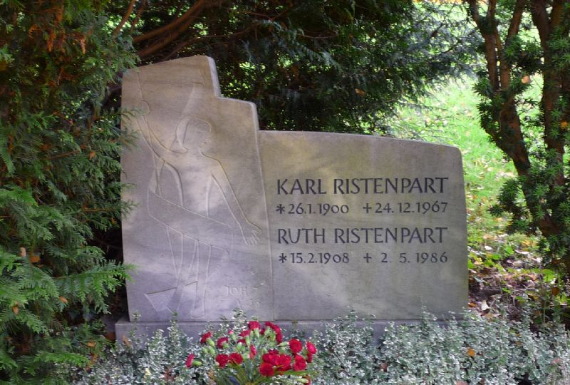 Grave of Karl Ristenpart on the "Friedhof St. Johann" cemetery at Saarbrücken